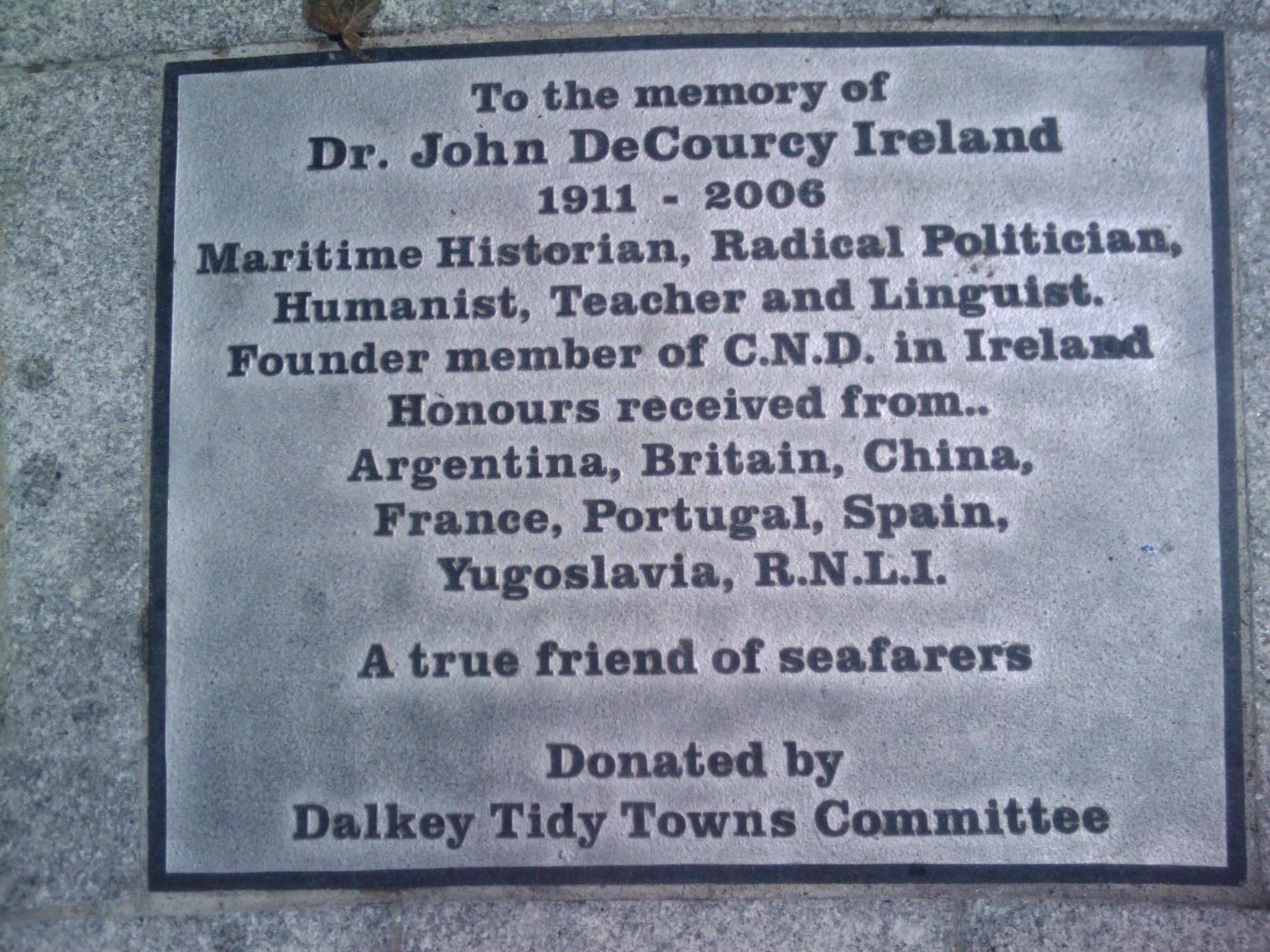 Plaque Dr John DeCourcy Dalkey humanism Socialism CND Jim Larkin